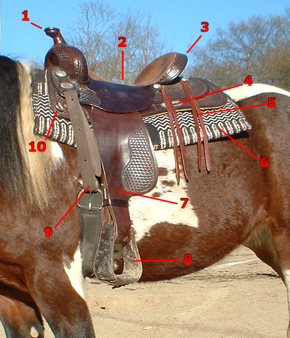 Modified from Image:Tinker Stute.JPG